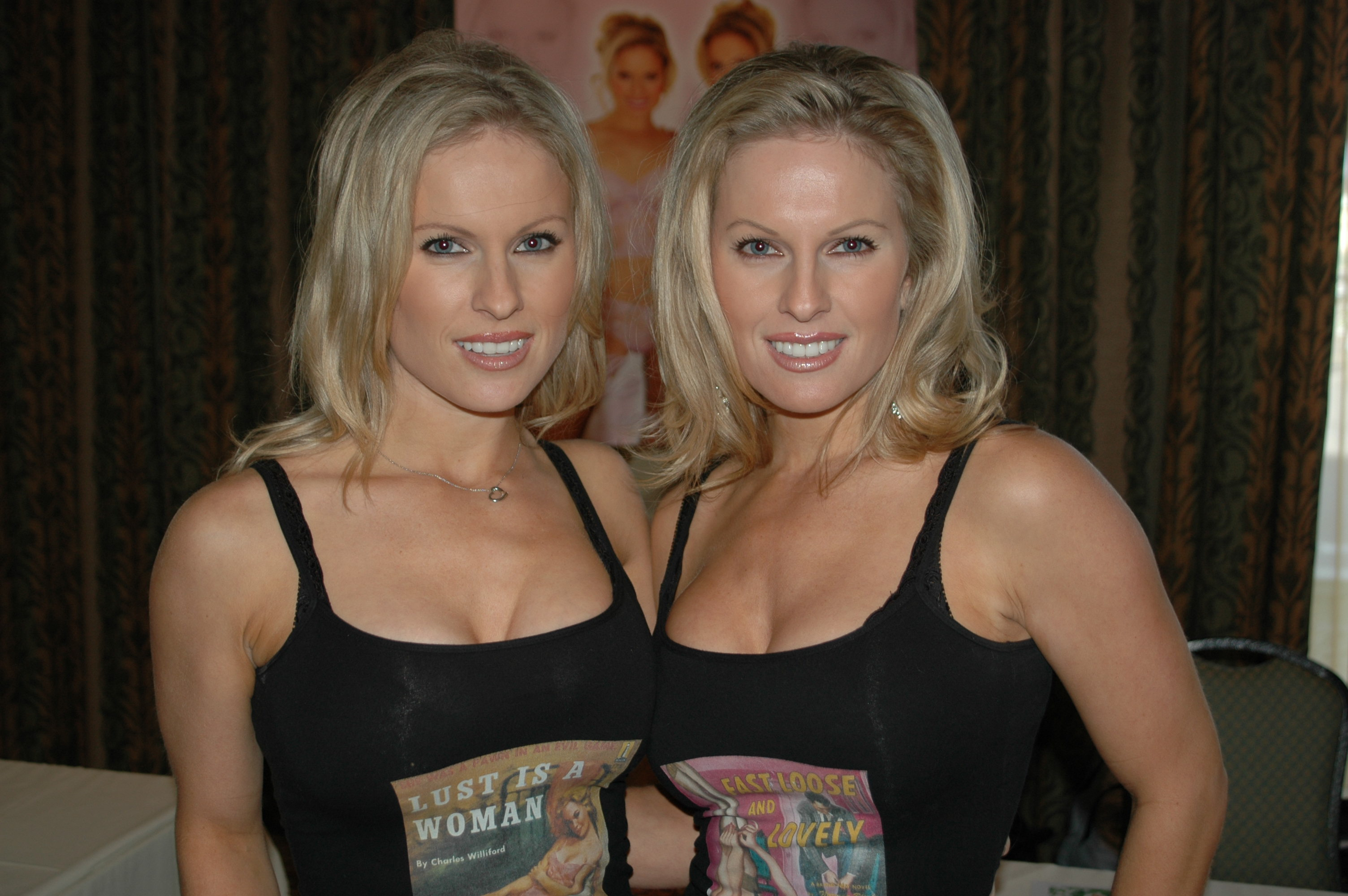 Coors Twins The Klimaszewski Sisters at Glamourcon 2004